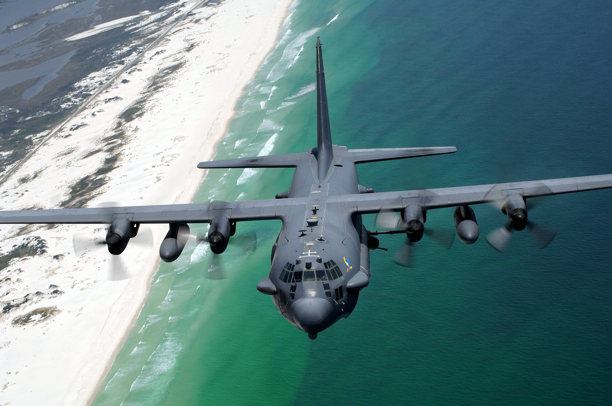 An AC-130H gunship from the 16th Special Operations Squadron flies over the Destin, Florida coastline on Aug. 24, 2007, during multi-gunship formation egress training.